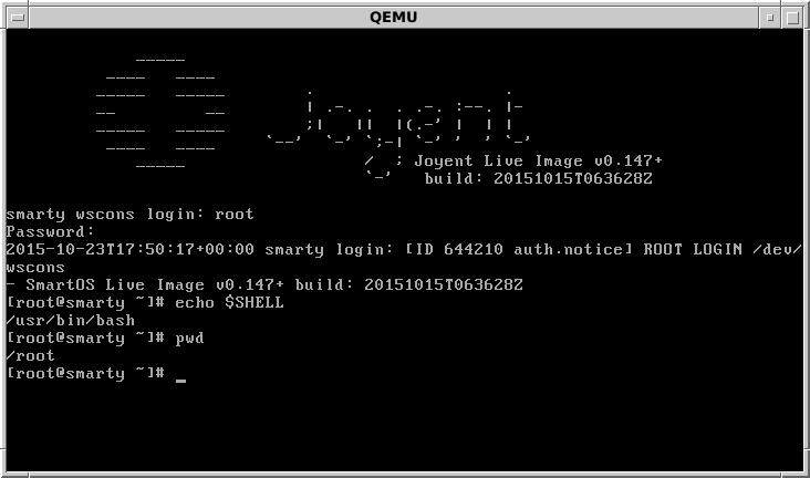 SmartOS banner and console login. Using the latest build of SmartOS as of October 2015.